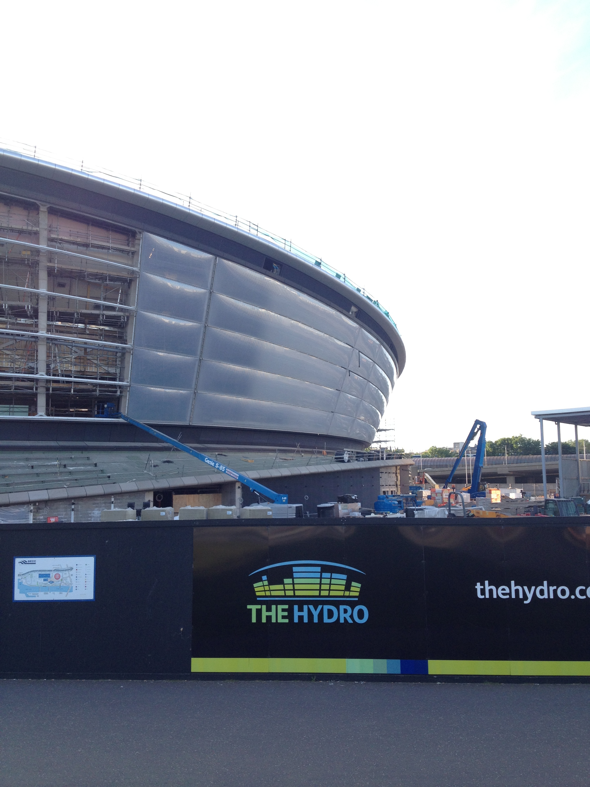 The SSE Hydro